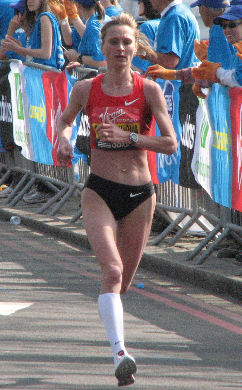 Defending champion Liliya Shobukhova came in second in 2:20:15, setting a Russian record. Virgin London Marathon, 17 April 2011. Taken from 24 and a half miles, at the (western) junction of Victoria Embankment and Temple Place, very close to the Walkabout.